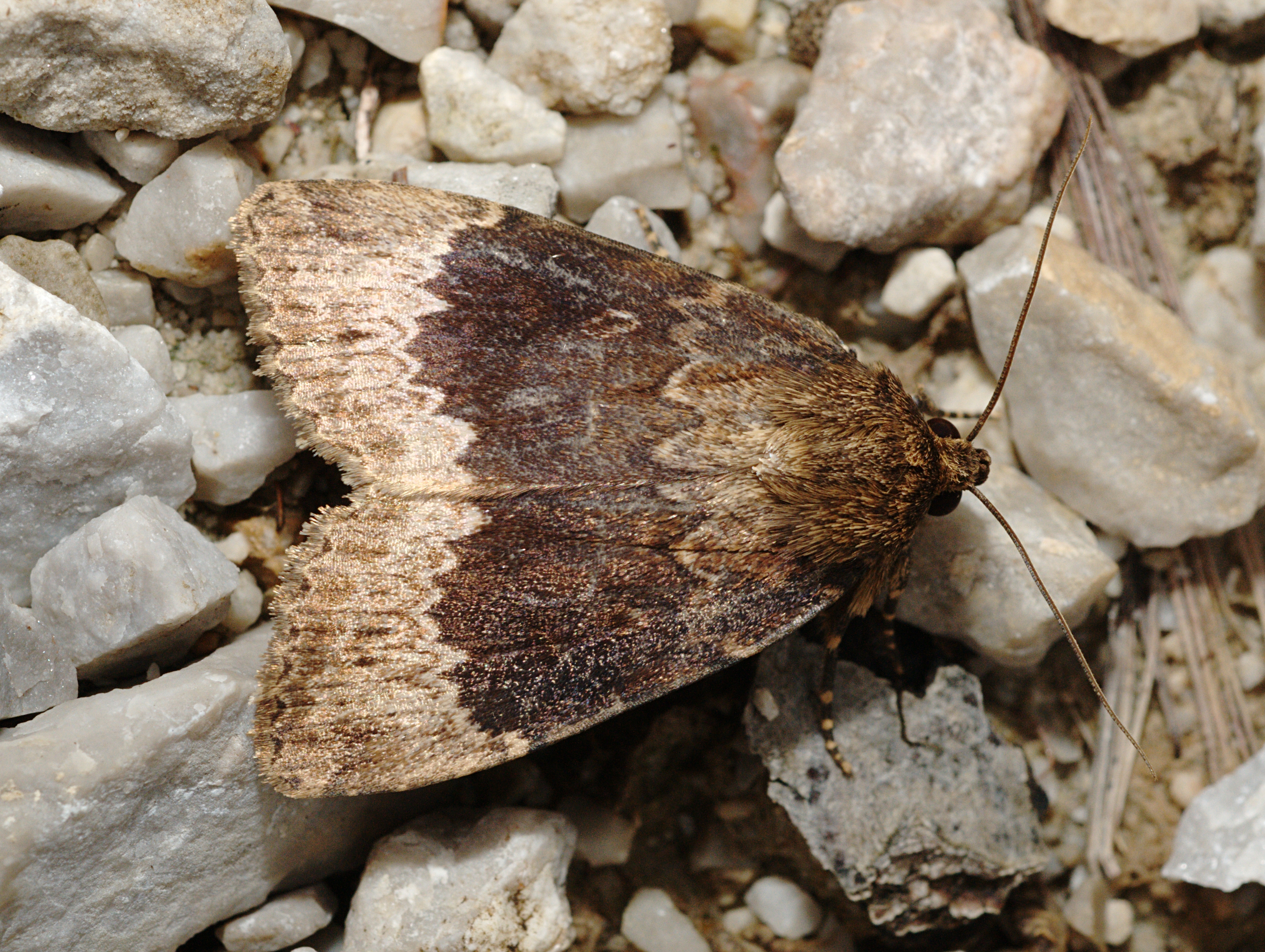 Amphipyra perflua